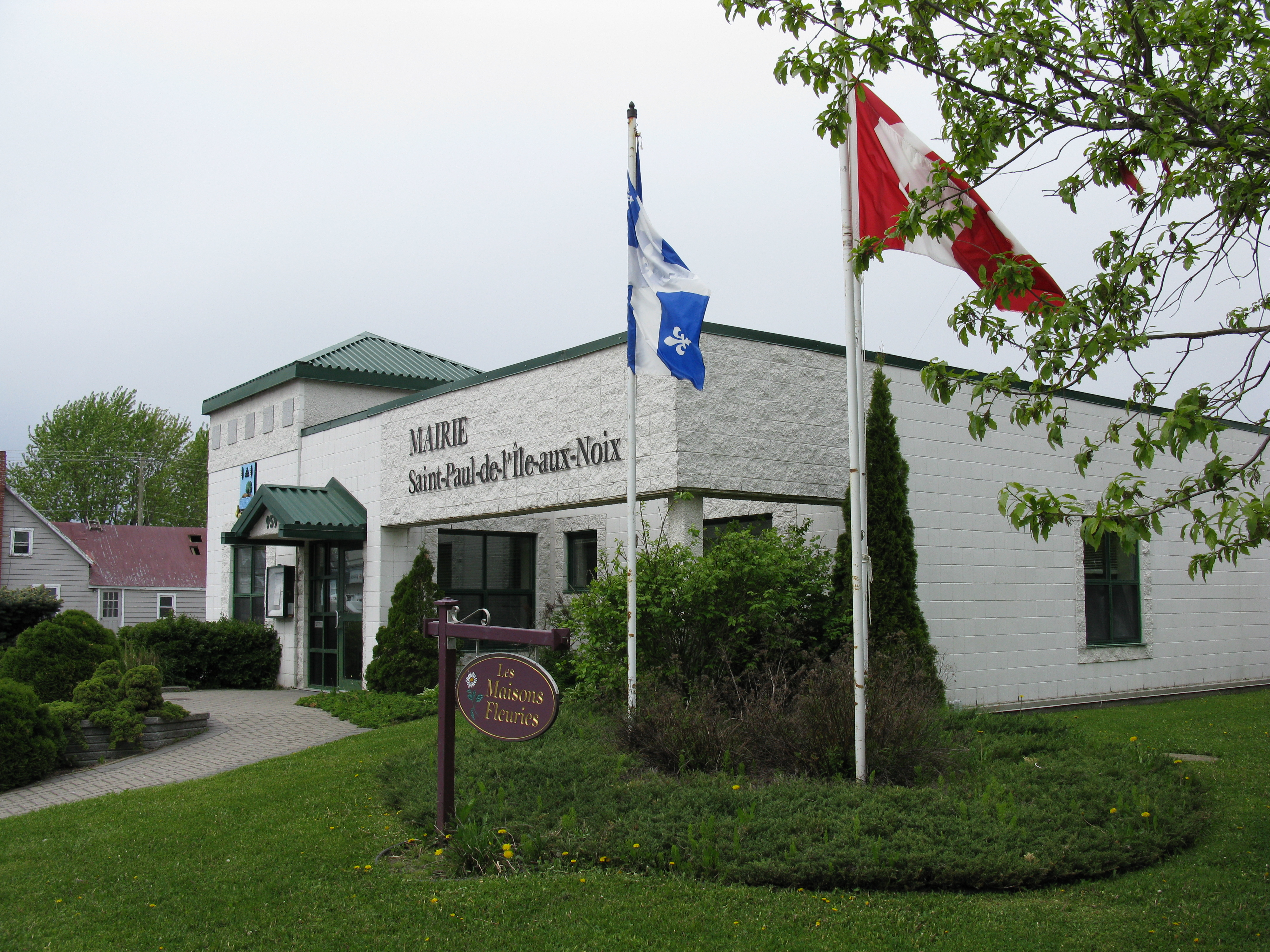 Saint-Paul-de-l'Île-aux-Noix city hall in the Montérégie region of Quebec, Canada.